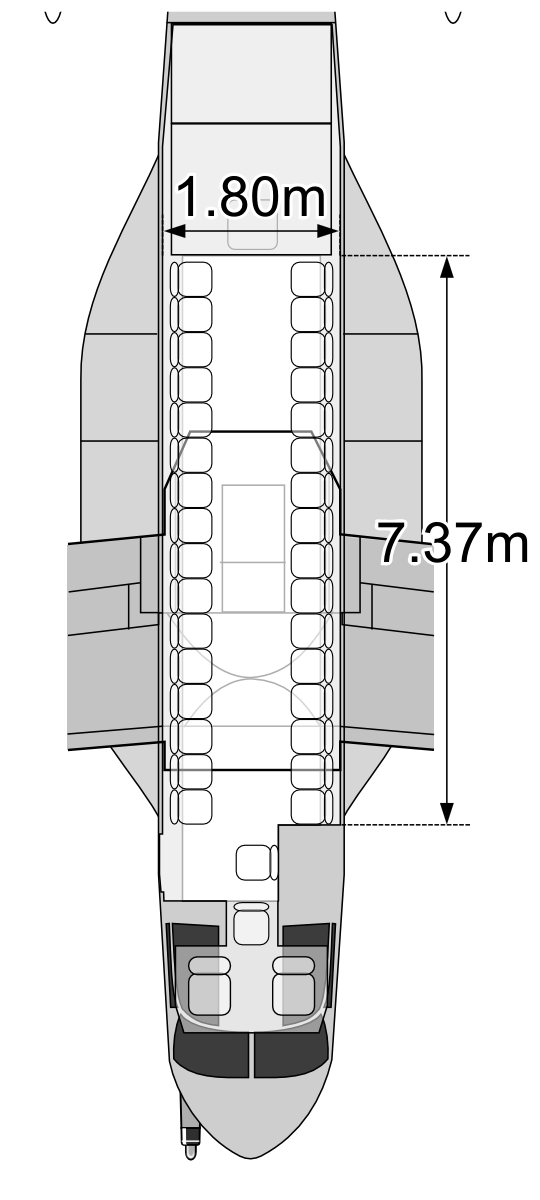 V-22 Osprey Seat arrangement